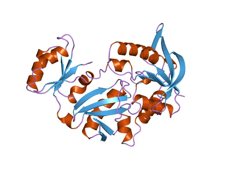 Cartoon representation of the molecular structure of protein registered with 1gsh code.